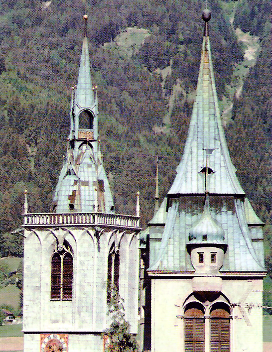 The image shows the two Schwaz bell towers, the right one (cemetery tower) is the younger one, the left one (northern steeple) is the older and higher one. The apparent proximity is relative; there is a distance of about 80 metres between them.